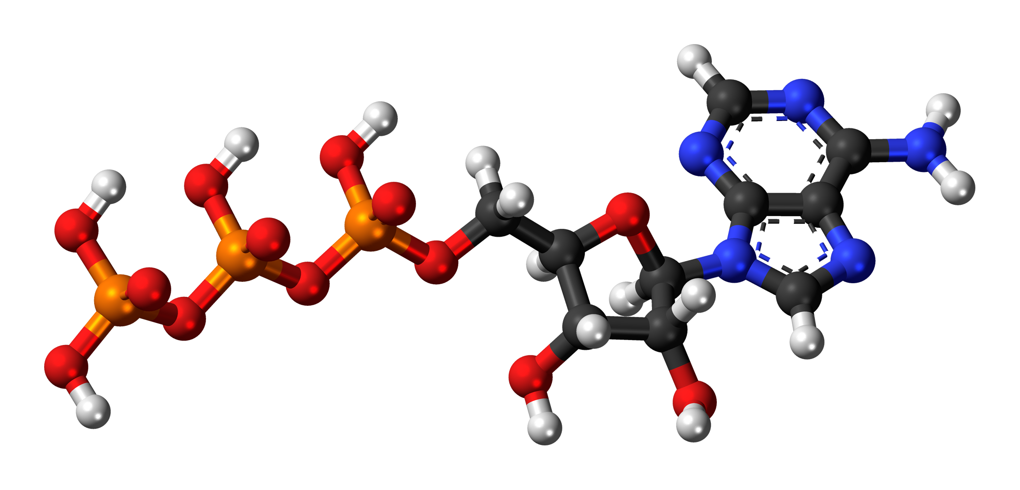 Ball-and-stick model of the adenosine triphosphate molecule, also known as ATP, the nucleotide that functions as the primary energy carrier in cells, often called the "molecular unit of currency". This image shows the electrically neutral form. Colour code: Carbon, C: black Hydrogen, H: white Oxygen, O: red Nitrogen, N: blue Phosphorus, P: orange